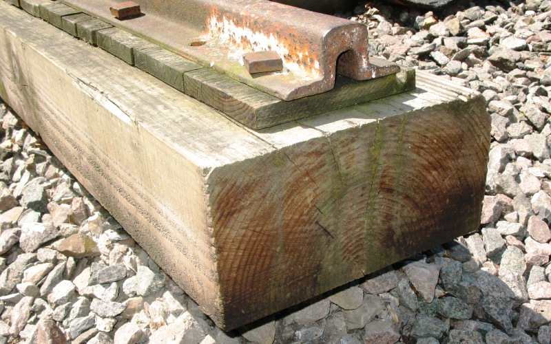 A cross-section through a baulk road railway track showing a bridge rail, packing, and a longitudinal baulk. part of the broad gauge display at the Didcot Railway Centre, England.